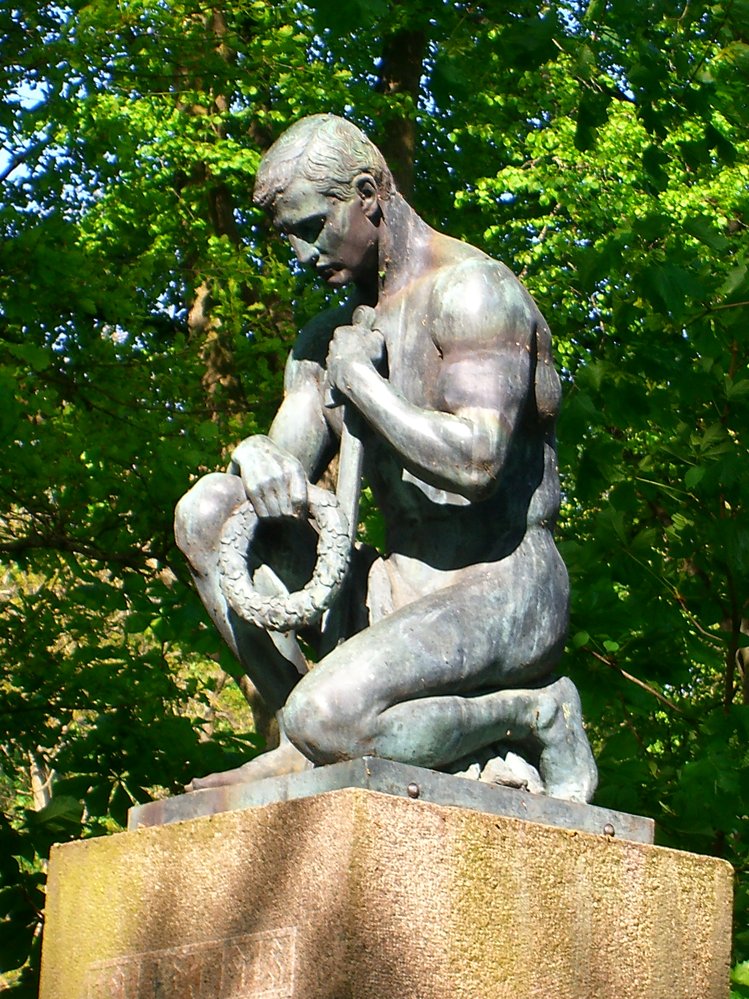 Memorial 1914/18 in Crivitz, sculpted by Wilhelm Wandschneider